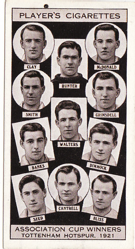 A cigarette card depicting the winners of the 1921 FA Cup Final